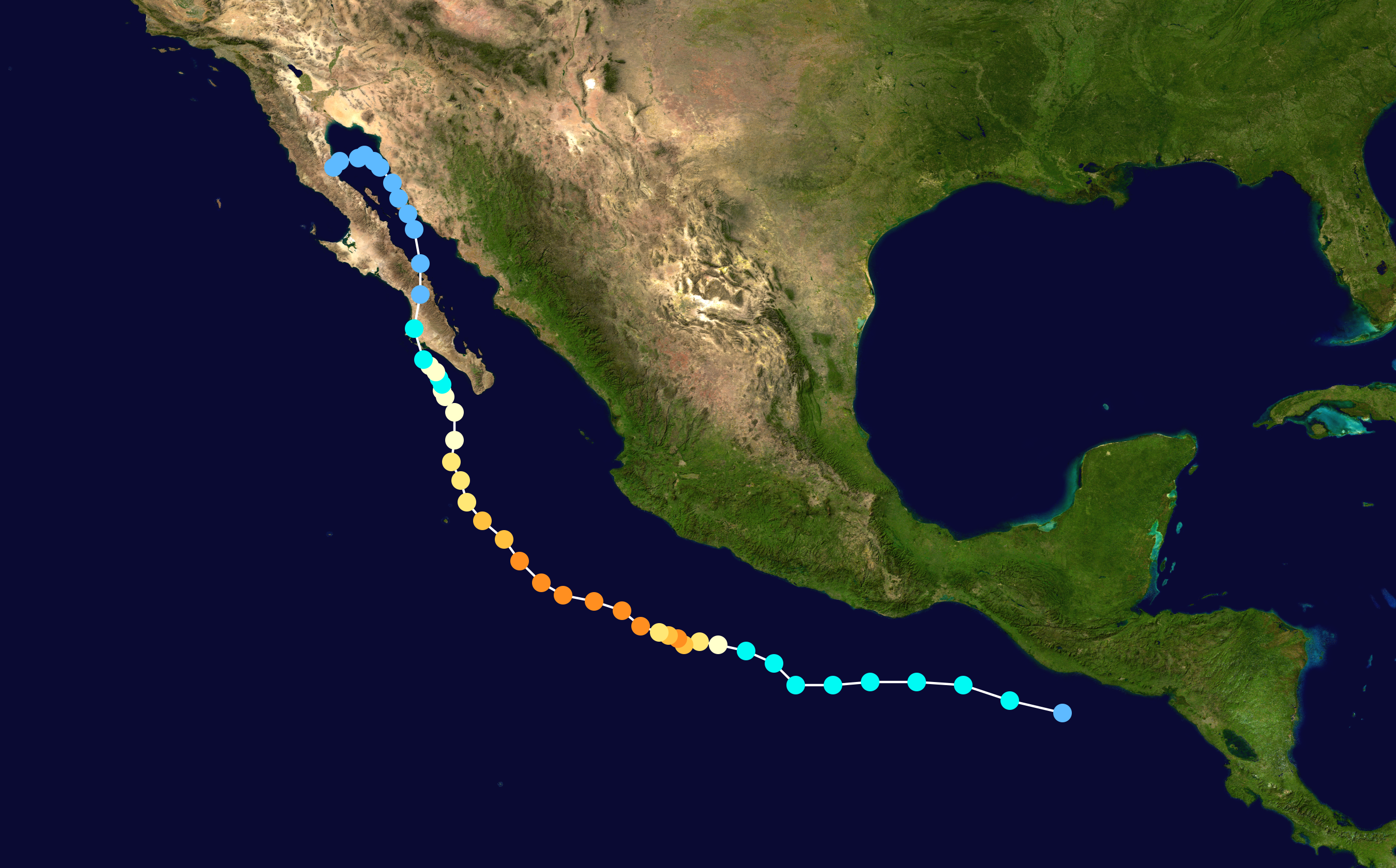 Hurricane Juliette (2001) track. Uses the color scheme from the Saffir-Simpson Hurricane Scale.